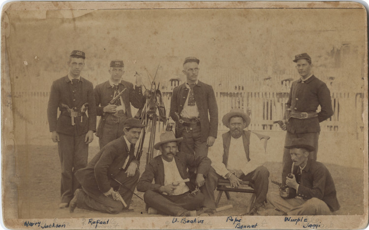 Title: Maverick County Jail Guards, Eagle Pass Rifles Creator: Unknown Date: 1891 Part Of: Lawrence T. Jones III Texas photography collection Physical Description: 1 photographic print: albumen; 11.1 x 18.6 cm. on 12.7 x 20.3 cm. mount File: ag2008_0005_4_2_2_07_maverick_opt.jpg Rights: Please cite Southern Methodist University, Central University Libraries, DeGolyer Library when using this image file. A high-quality version of this file may be obtained for a fee by contacting . For more information, see: View the Lawrence T. Jones III Texas Photographs at